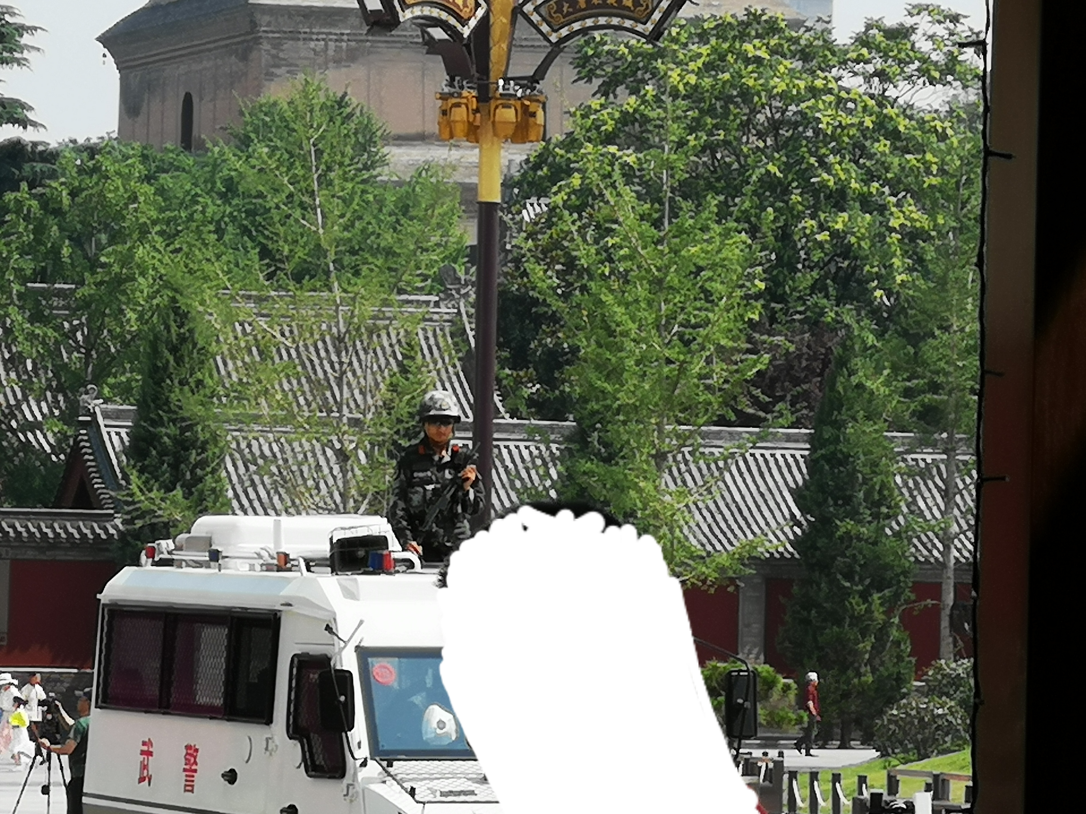 An armed Chinese policeman stands guard from a police vehicle with a Hawk Industries Type 97 shotgun in front of the Dayan Pagoda South Square; the face of the bystander in front of the vehicle has been censored in respect of their privacy. The side of the white police vehicle reads "武警" (Wǔjǐng) meaning "armed police". The "Dayan" or "Giant Wild Goose" Pagoda is not in the frame, and is a Tang Dynasty-era Buddhist pagoda. This site was selected as a UNESCO World Heritage Site on June 22, 2014, and attracts many tourists and visitors to Xi'an.